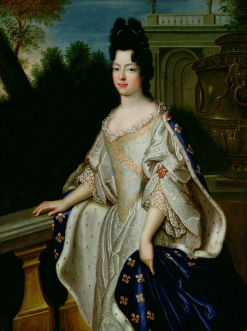 Portrait de Marie Adélaïde de Savoie, Duchess of Burgundy (1685-1712)